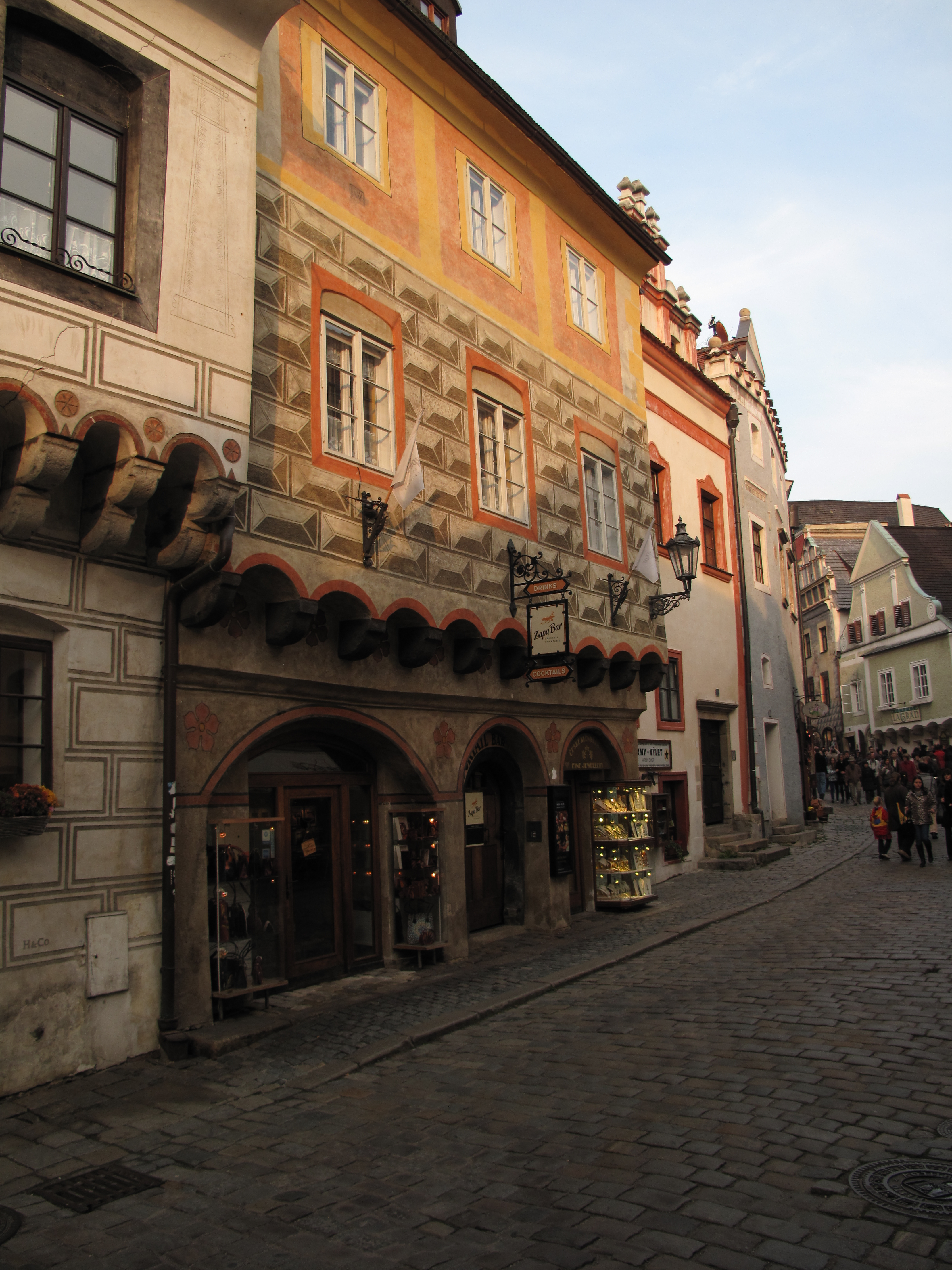 Latrán Street, Český Krumlov, Czech Republic.